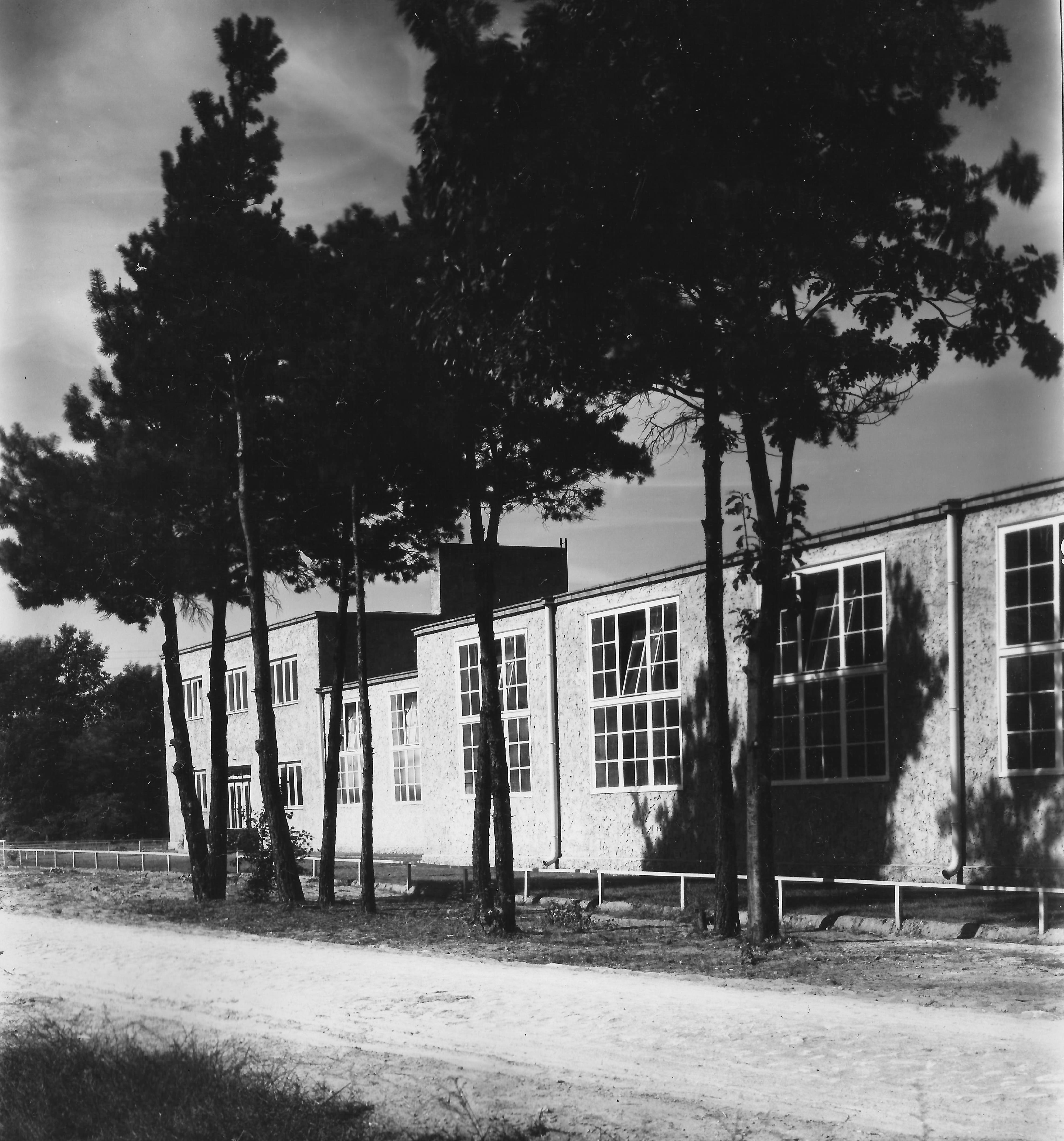 cabinet-making Workshop in Gildenhall (Neuruppin), designed and built in 1929 by German architect Heinrich Westphal; today demolished